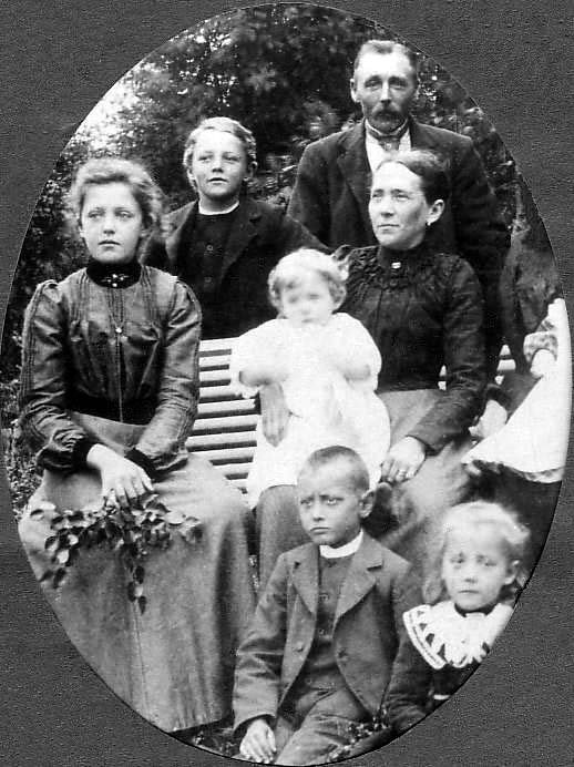 Carl Johan Sandberg (1861-1921) with wife Emma Jävert Sandberg (1864-1952) and their children Ragnhild (Anderson), Ragnar, Rosa (Hagström), Rudolf and Ruth (Thorslund & Görsson), as released by image owner FamSACPlace: Probably Ludvika, Sweden